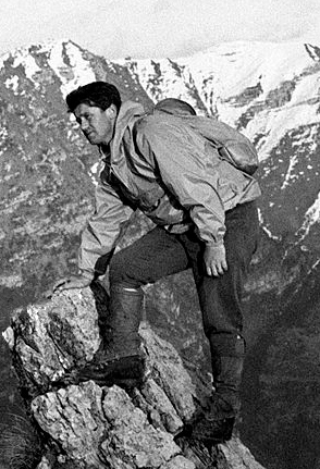 Carlo Mauri in Italy